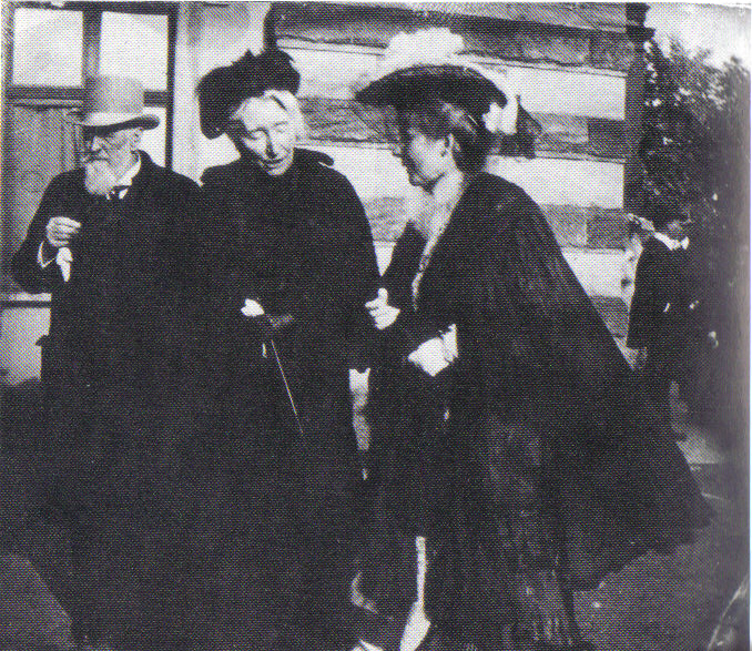 Cosima Wagner with Count and Countess Wolkenstein at the Bayreuth Festspielhaus